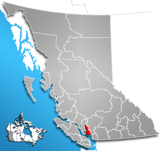 Location of Sunshine Coast Regional District, British Columbia